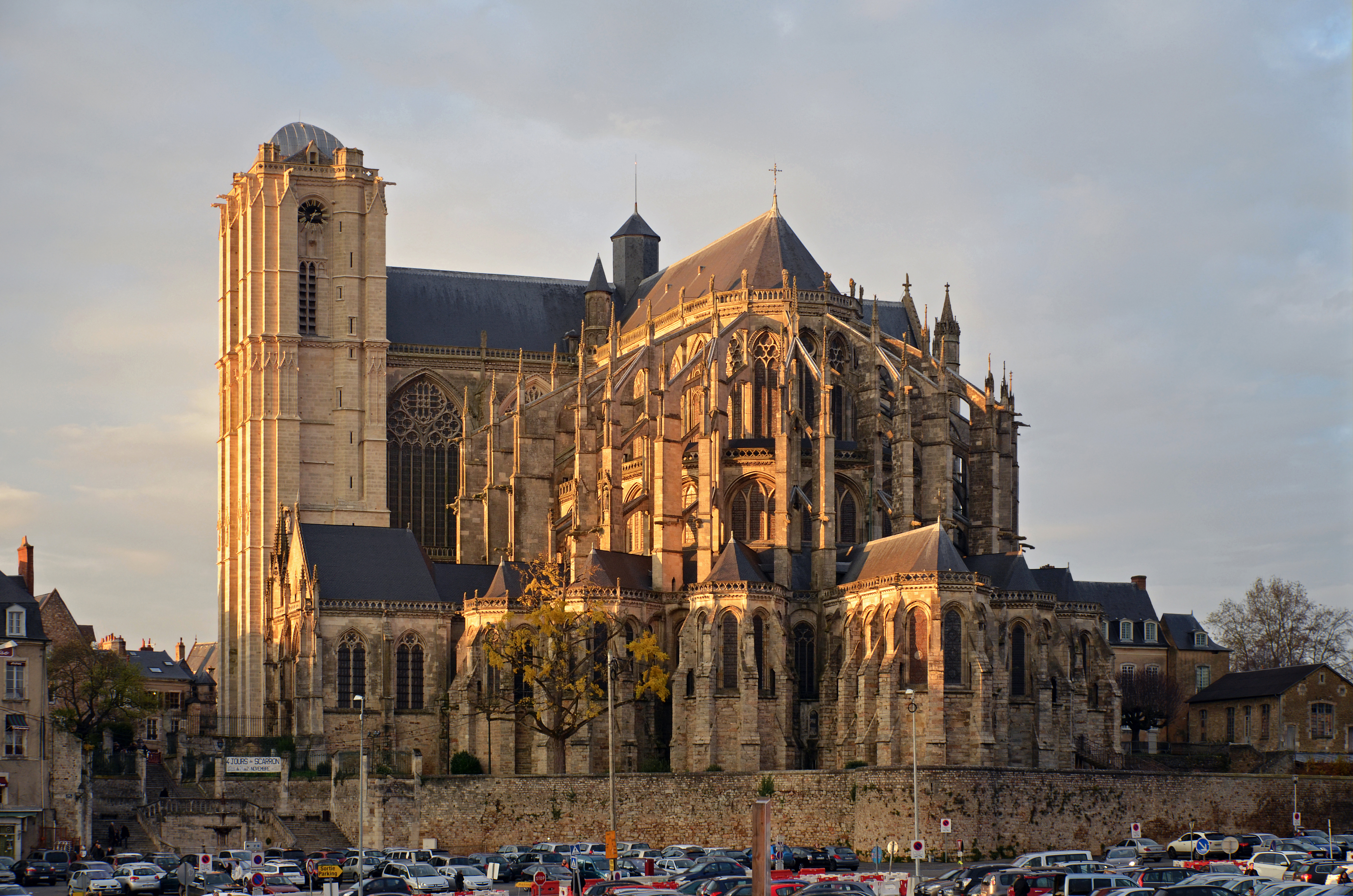 Le Mans Cathedral - Le Mans, France